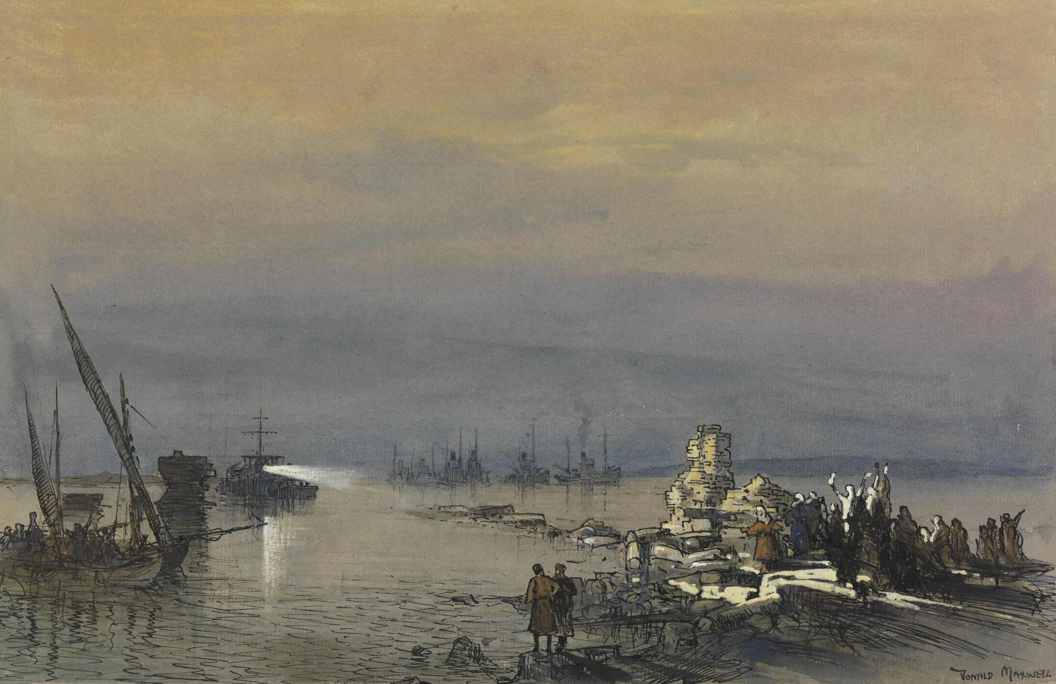 Ml 206 Entering Tyre image: a Royal Navy motor launch approaches the harbourside at Tyre, shining a bright light at a crowd of local men, who appear to be standing beside piles of supplies. There is a local sailing boat to the left and a line of ships in the distance, in the middle of the composition.